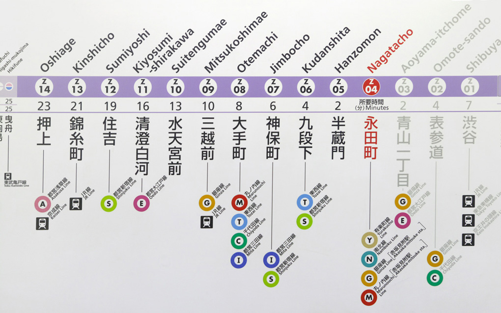 A Information board of the Nagatachō Station Tokyo Metro Hanzōmon Line